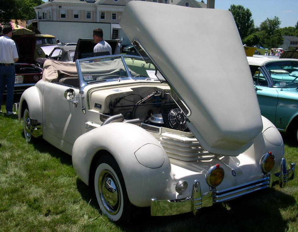 Cord 810 Source: Photographed at the Bay State Antique Automobile Club's July 10, 2005 show at the Endicott Estate in Dedham, MA by User:Sfoskett